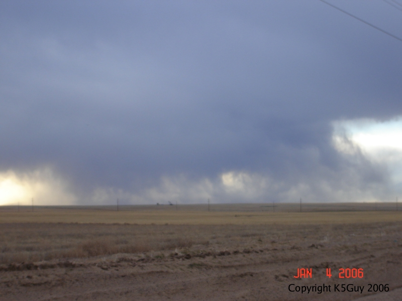 Microburst near Dever Colordao